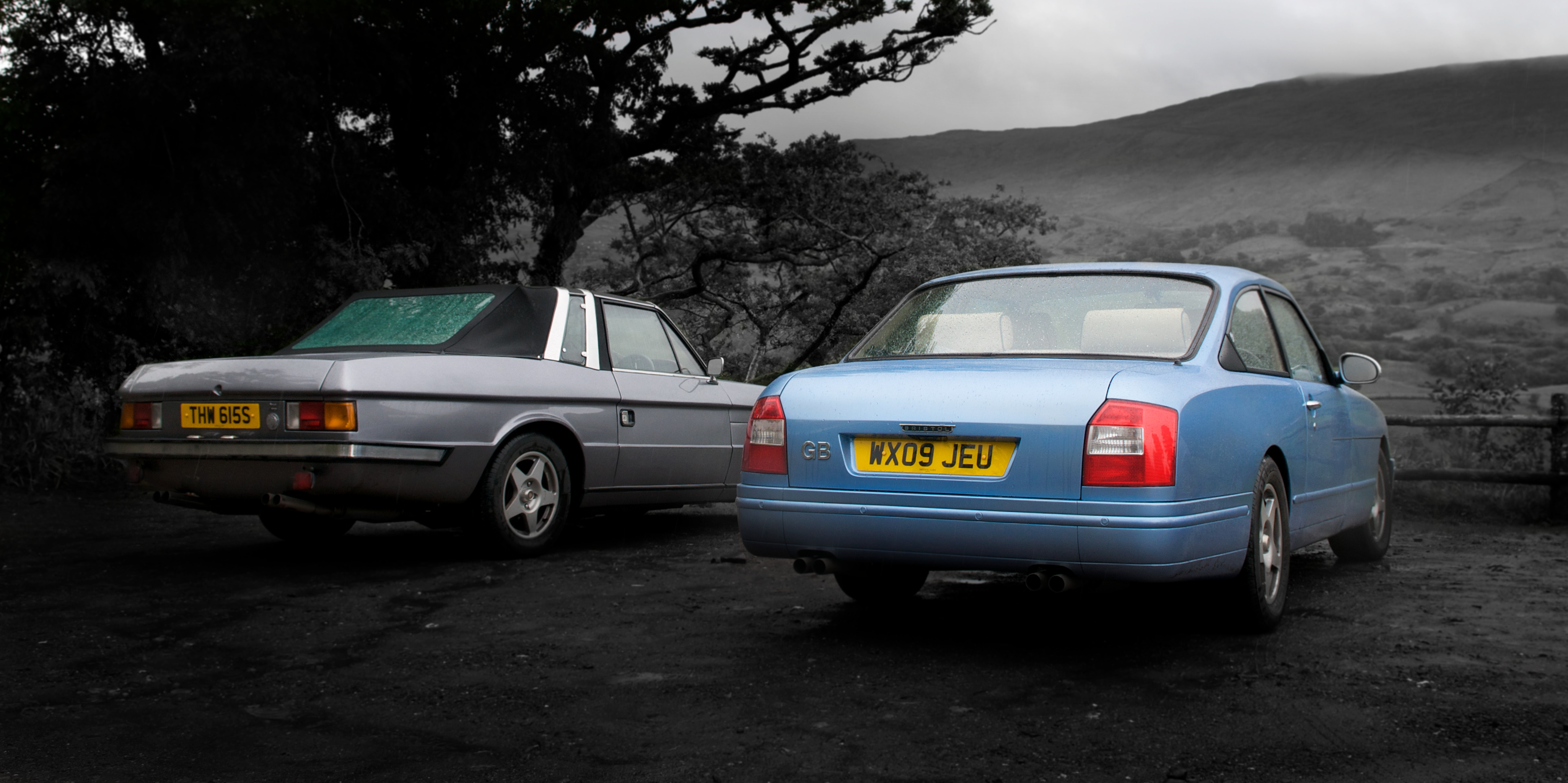 The Bristol 412 S2 was built in 1977 and the Bristol Blenheim 4 was built in 2009 to special order